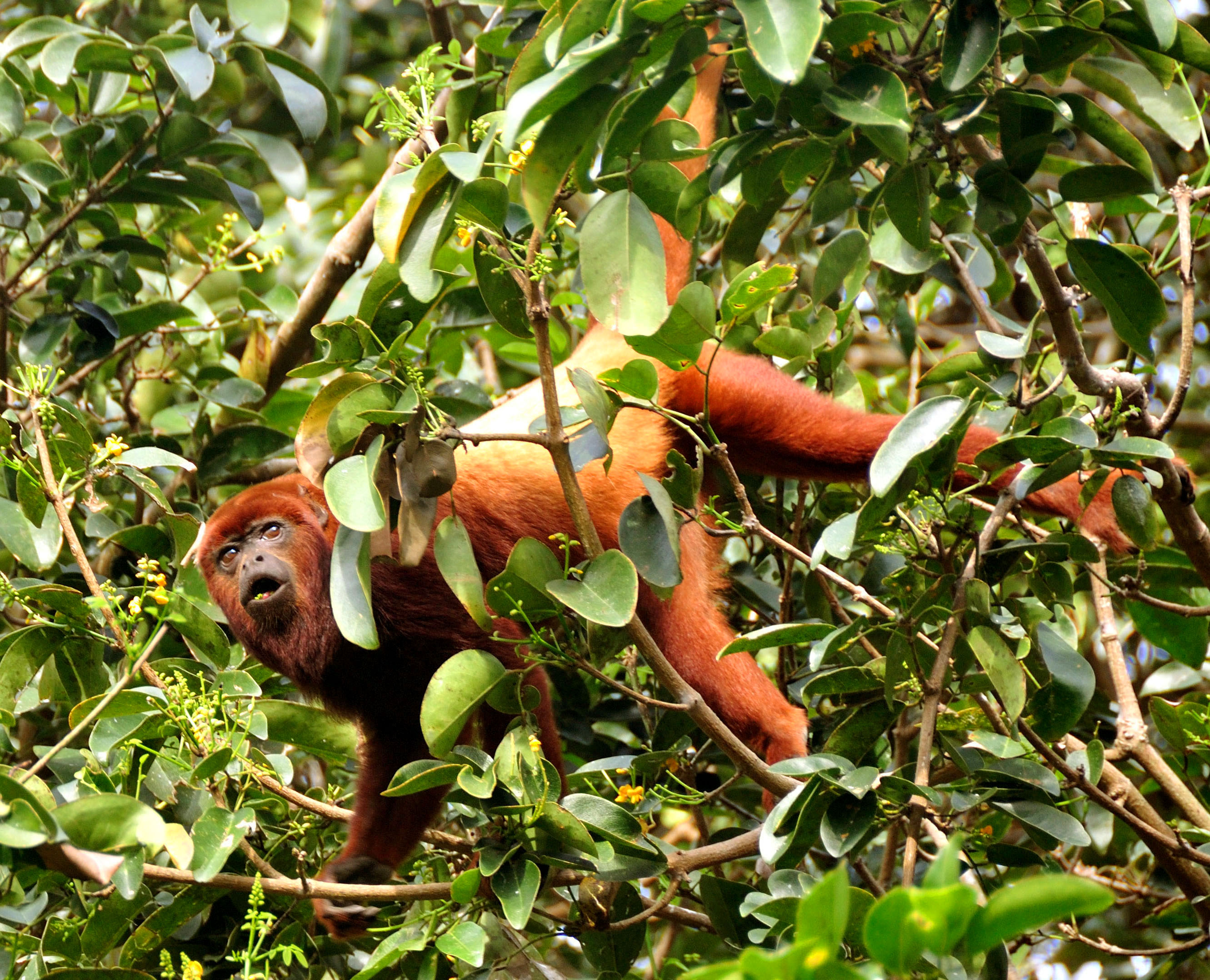 Ursine howler monkey (Alouatta arctoide) in Hato el Cedral, Venezuelan llanos.